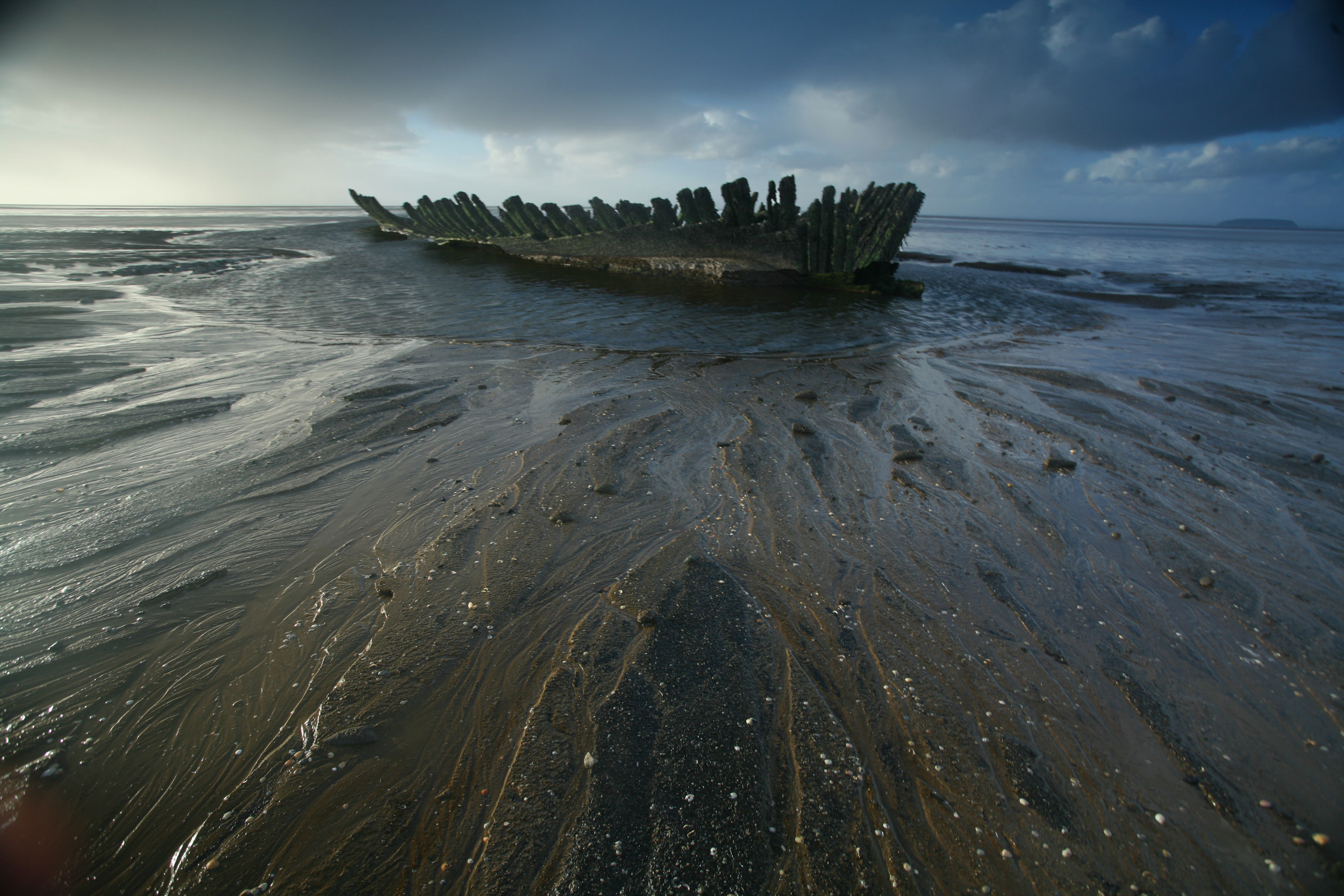 The Bristol Channel has the world's second highest tidal range. This together with its topography makes it risky for sailing ships specially in a westerly gale.